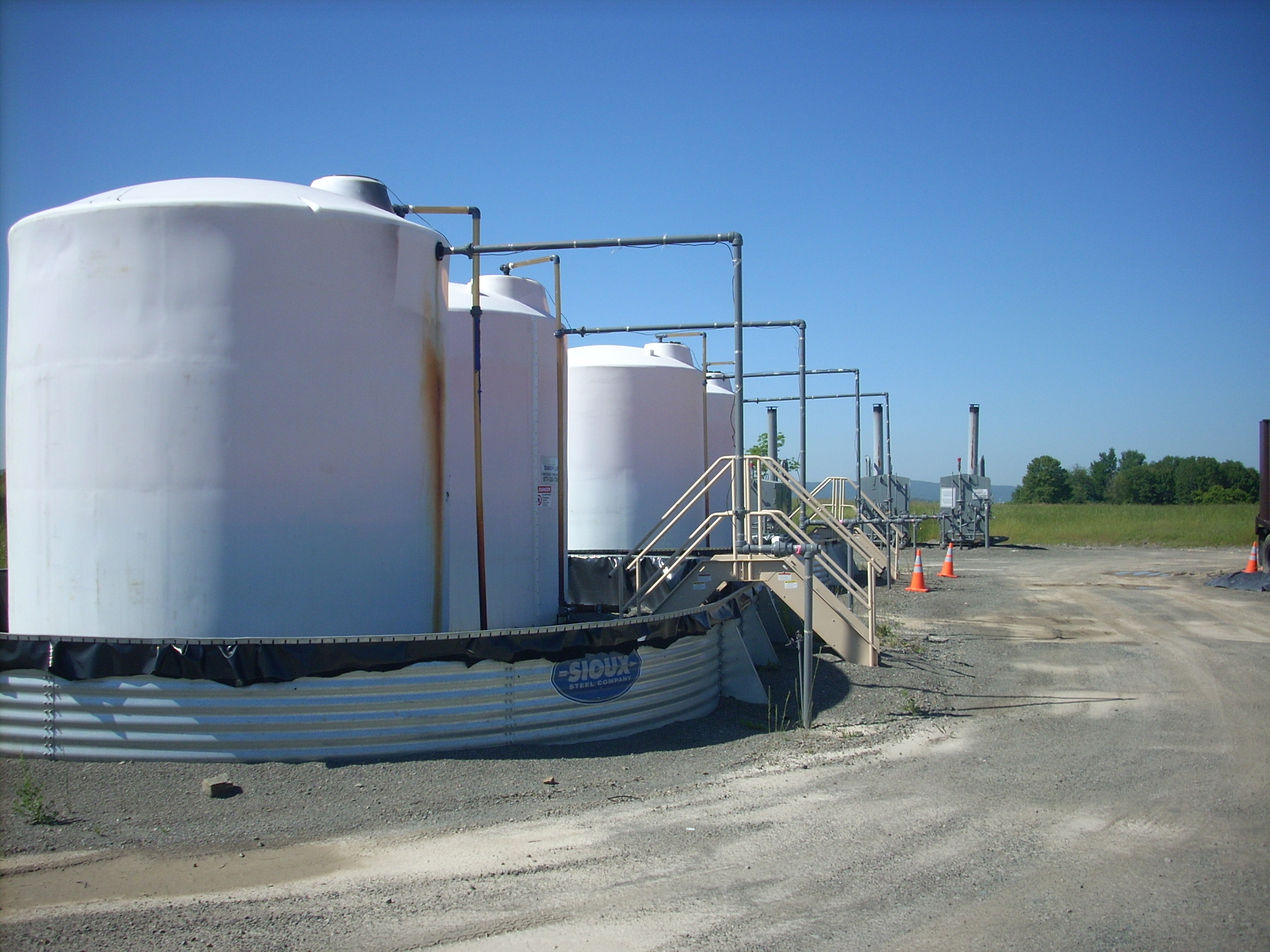 North Central Pennsylvania has undergone some major changes since I moved to North Carolina in 2000. Natural gas is being drilled from the Marcellus Formation. Not sure what these tanks are for.